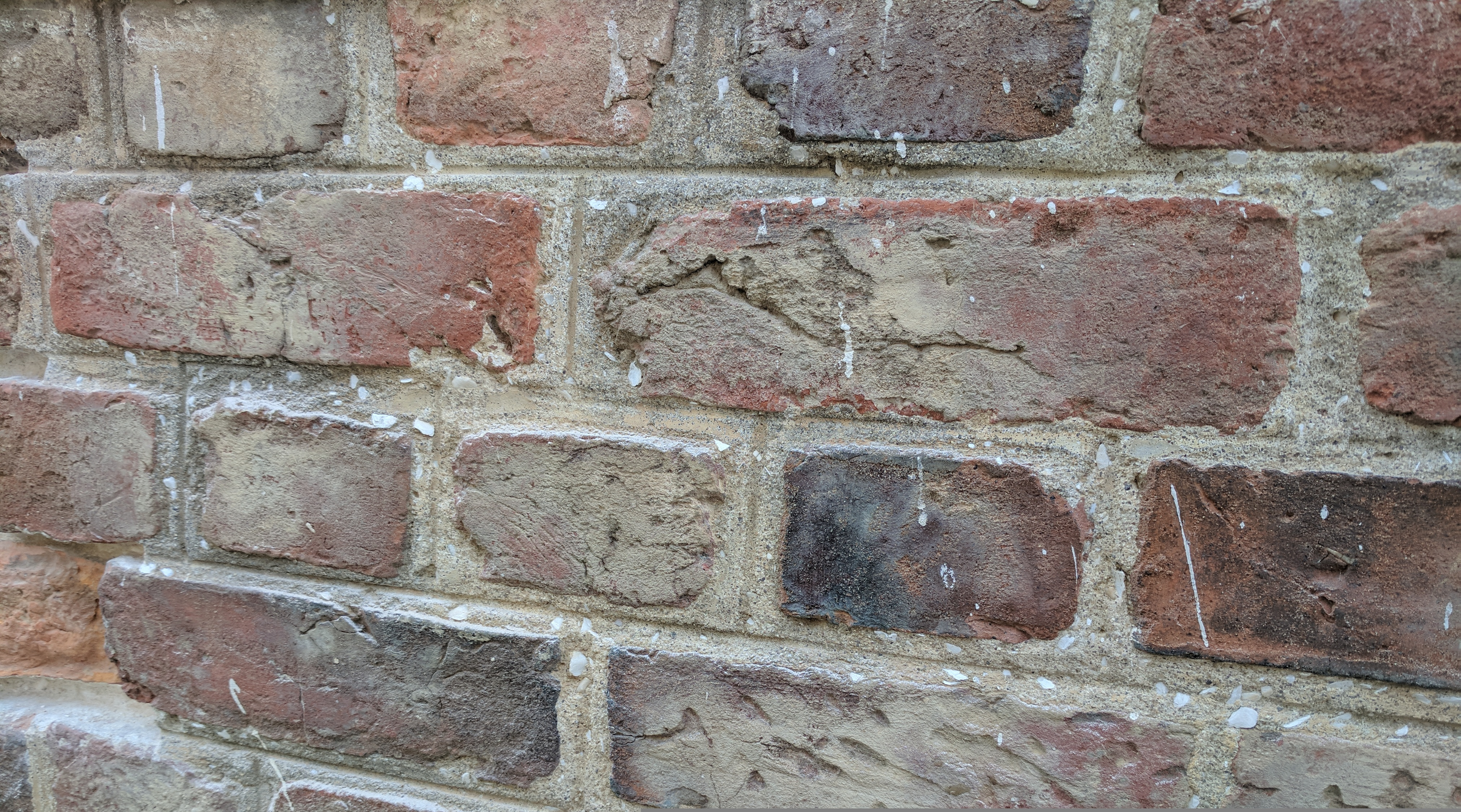 This mortar was made to simulate an oyster shell mortar. Notice the large white flakes of shell. In fact this was a very hard Portland mortar. Luckily these are also very hard bricks and have not suffered much from the overly strong mortar